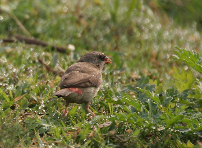 Red Avadavat Amandava amandava in Kolkata, West Bengal, India.